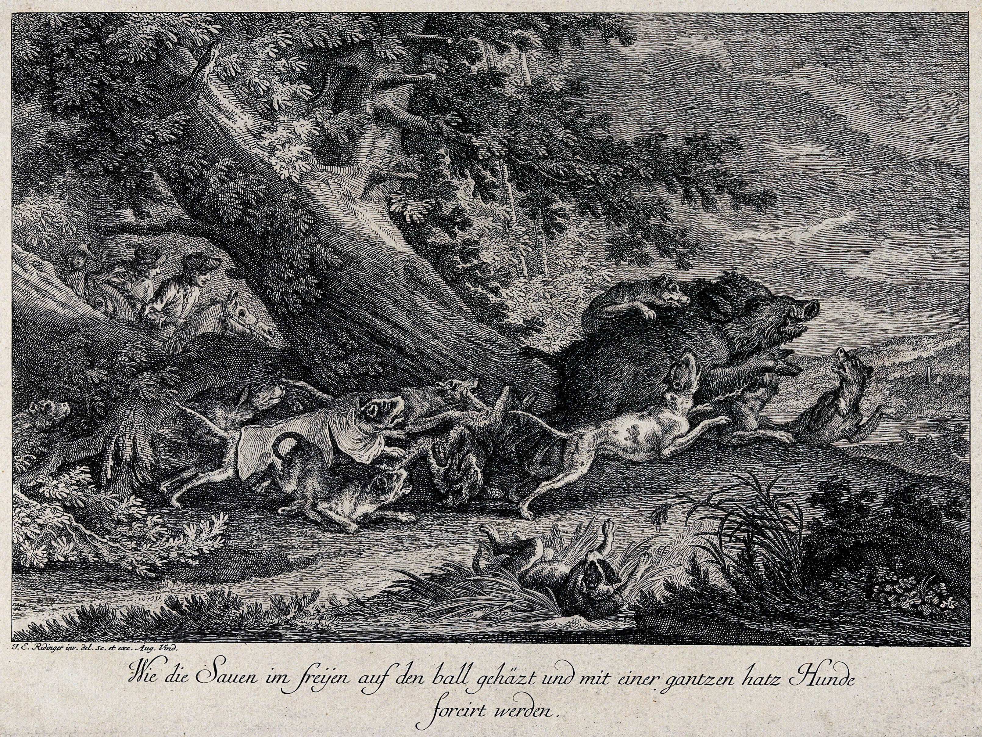 A wild boar is chased and attacked by a pack of dogs during a hunt in the forest with mounted huntsmen following the dogs. Etching by J. E. Ridinger. Iconographic Collections Keywords: Johann Elias Ridinger